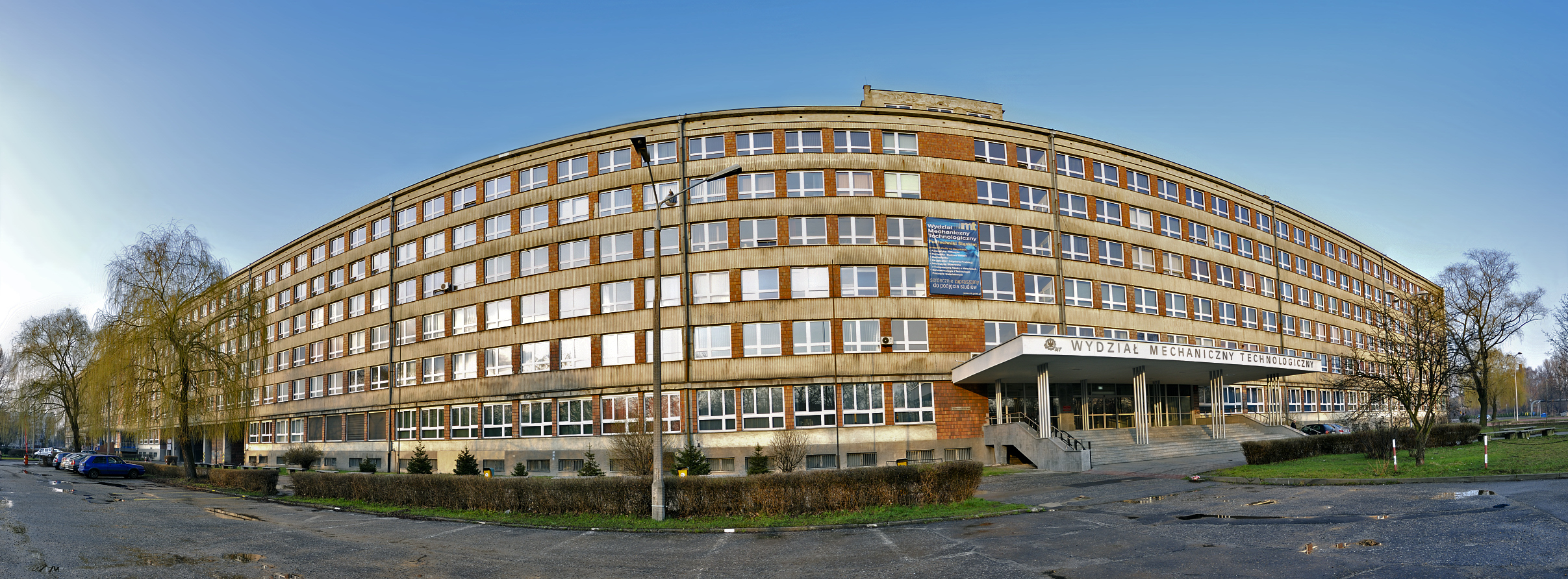 Silesian University of Technology - Faculty of Mechanical Engineering